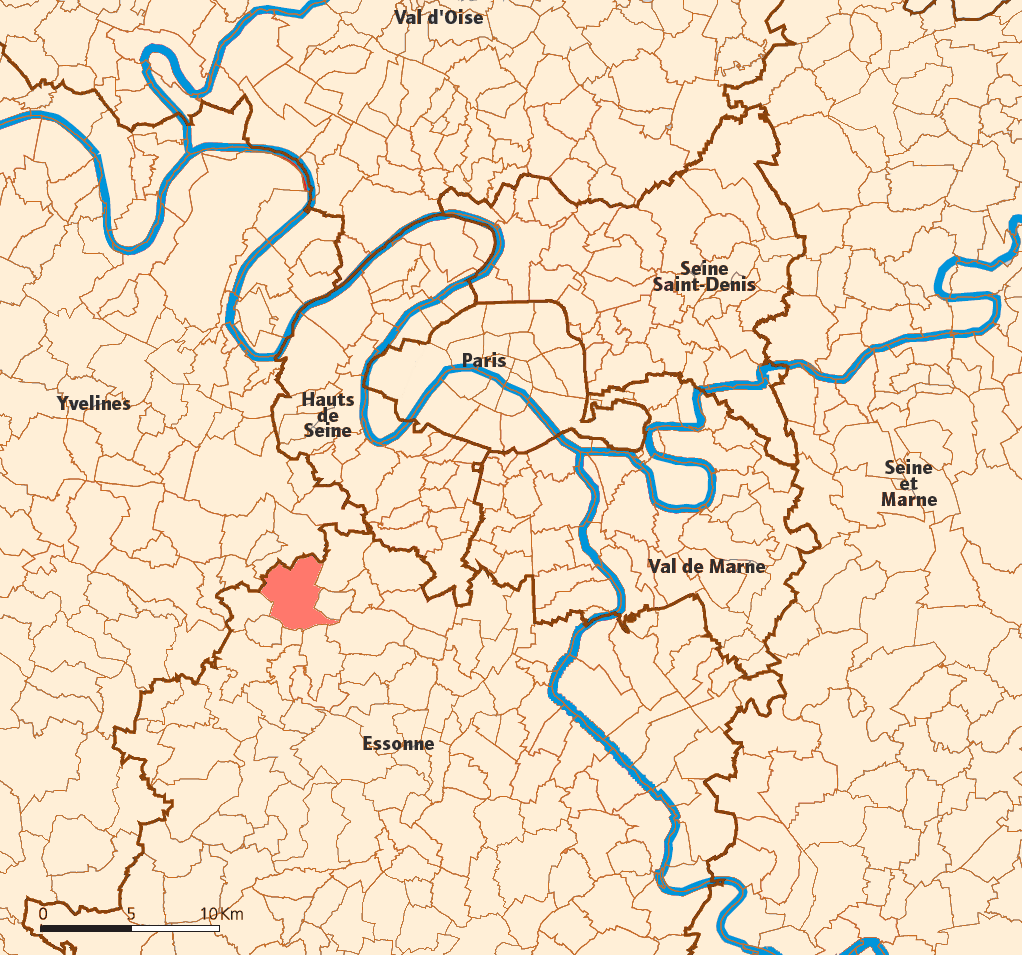 Localisation map of Saclay in France